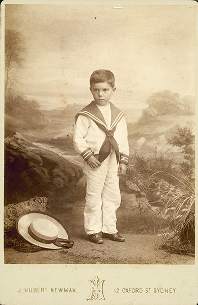 Photograph of a boy on Oxford St, Sydney wearing a sailor suit, with a sennit straw hat at his feet.